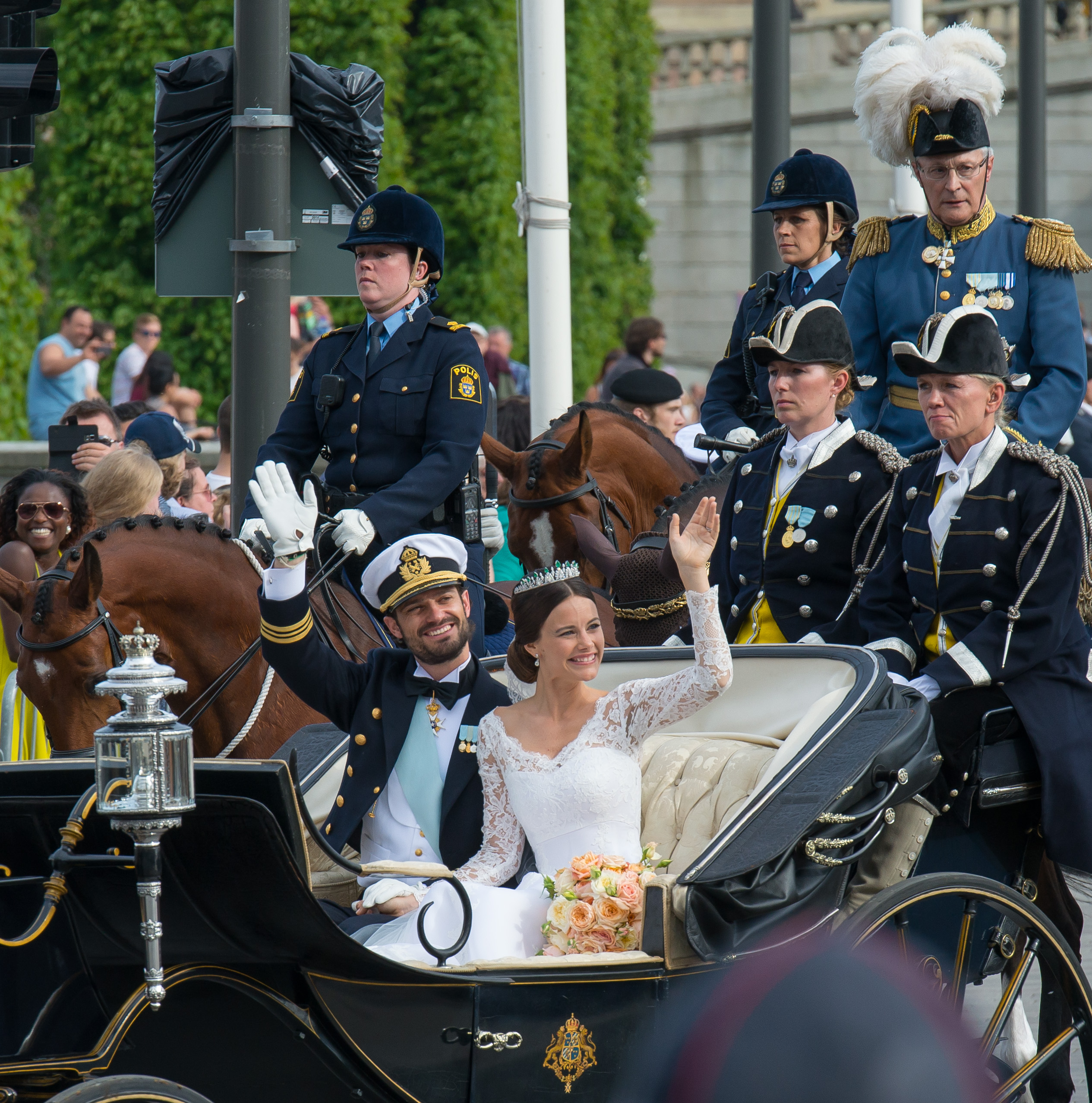 Prince Carl Philip and Princess Sofia after the ceremony in the Royal Chapel and during the procession through central Stockholm. Picture taken at Gustav Adolfs Torg 13 June 2015.